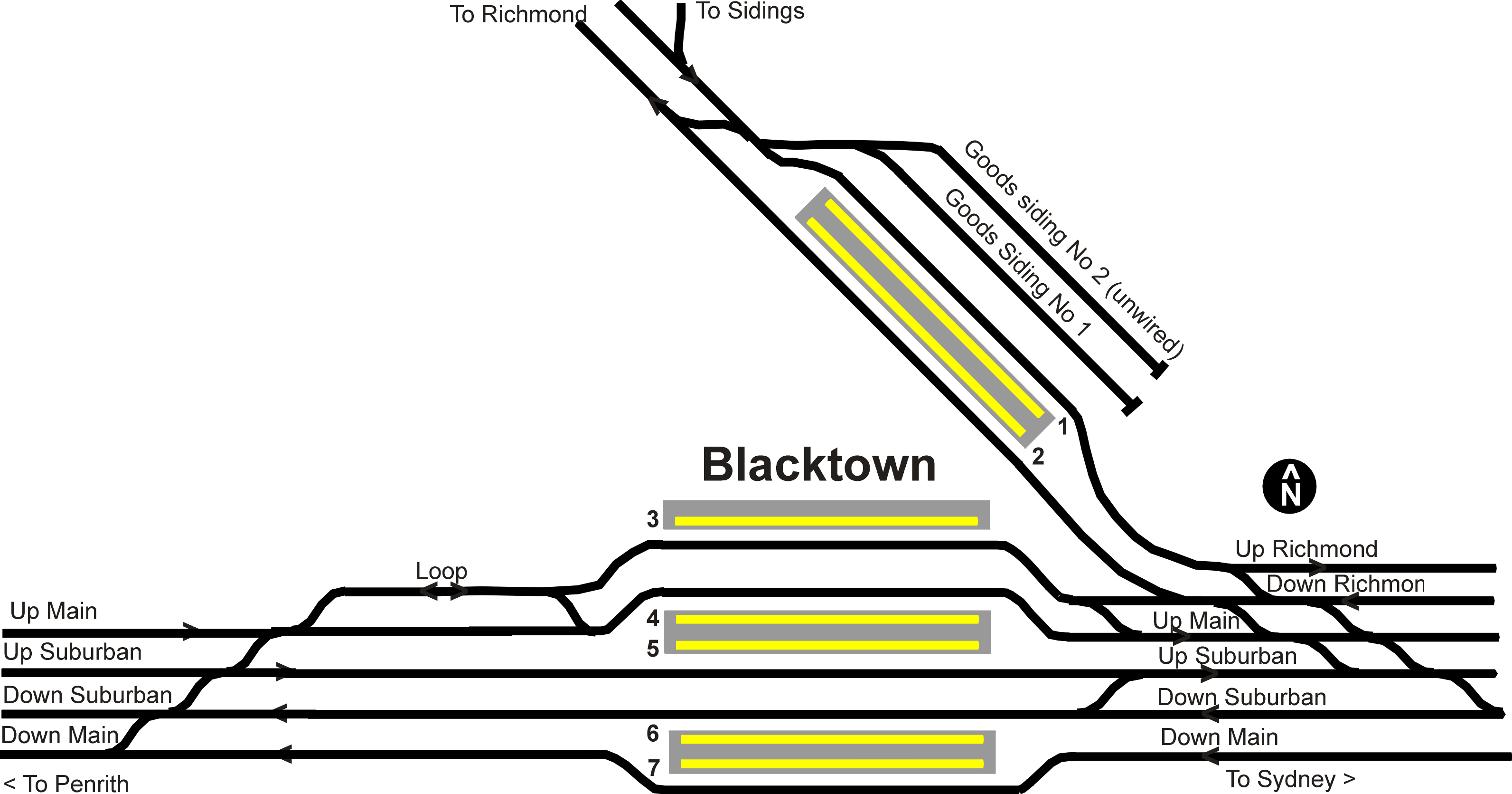 Track layout at Blacktown railway station